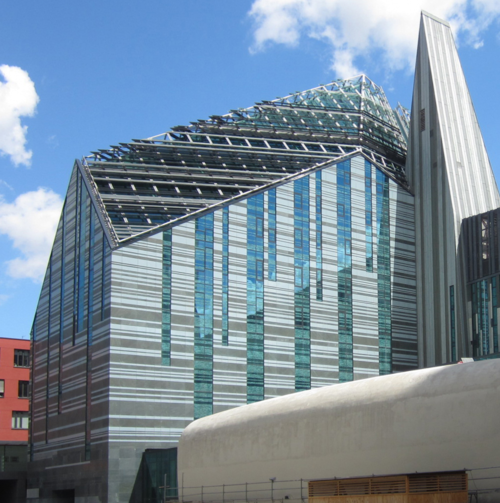 Back view on the construction site of Paulinum – Aula und Universitätskirche St. Pauli (Auditorium and University Church St. Pauli). Photograph taken from Leibnizforum, the campus atrium, in July 2012.